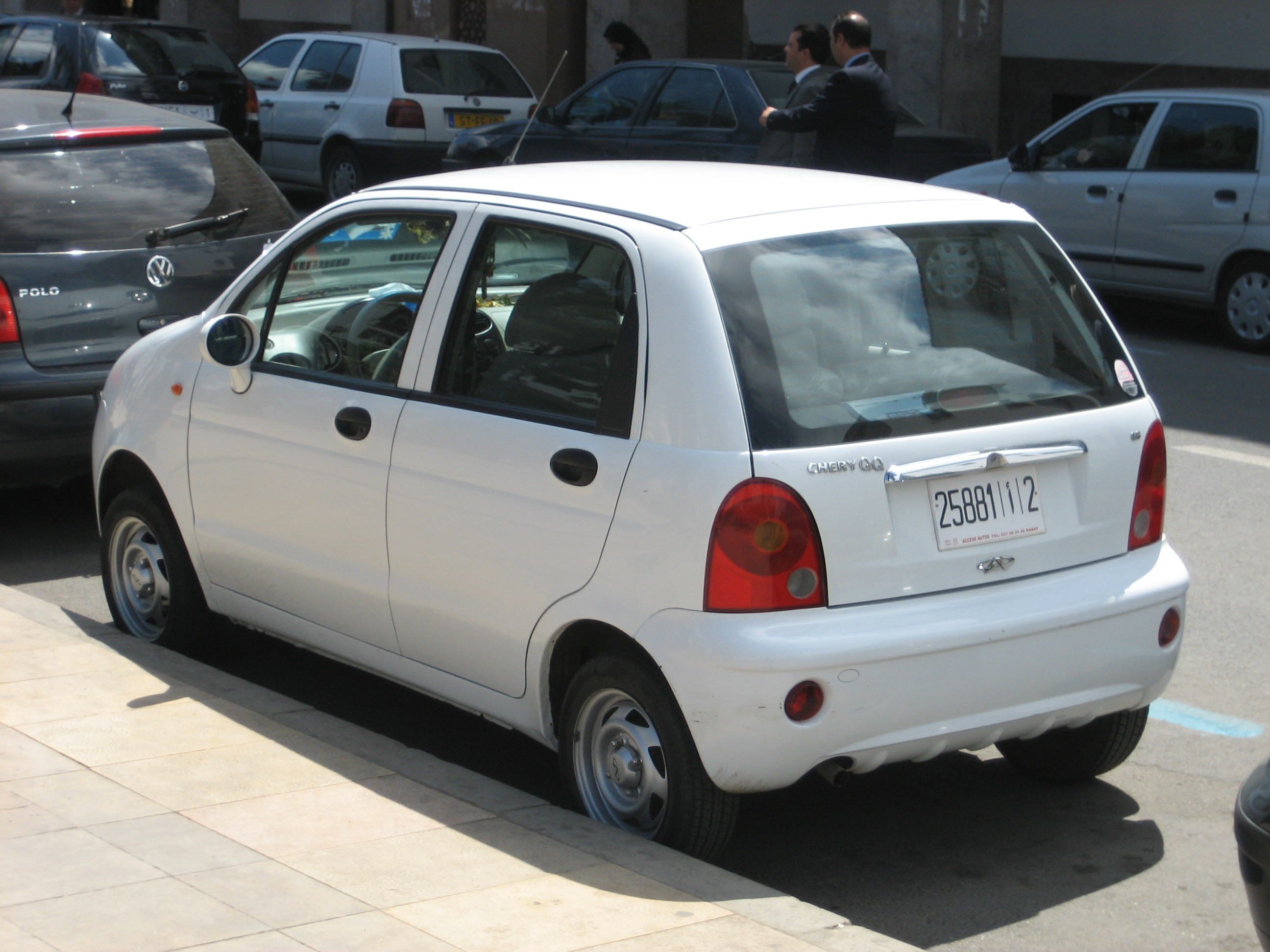 Chery QQ on the street in downtown Rabat, Morocco. Read more about the Chery QQ here.